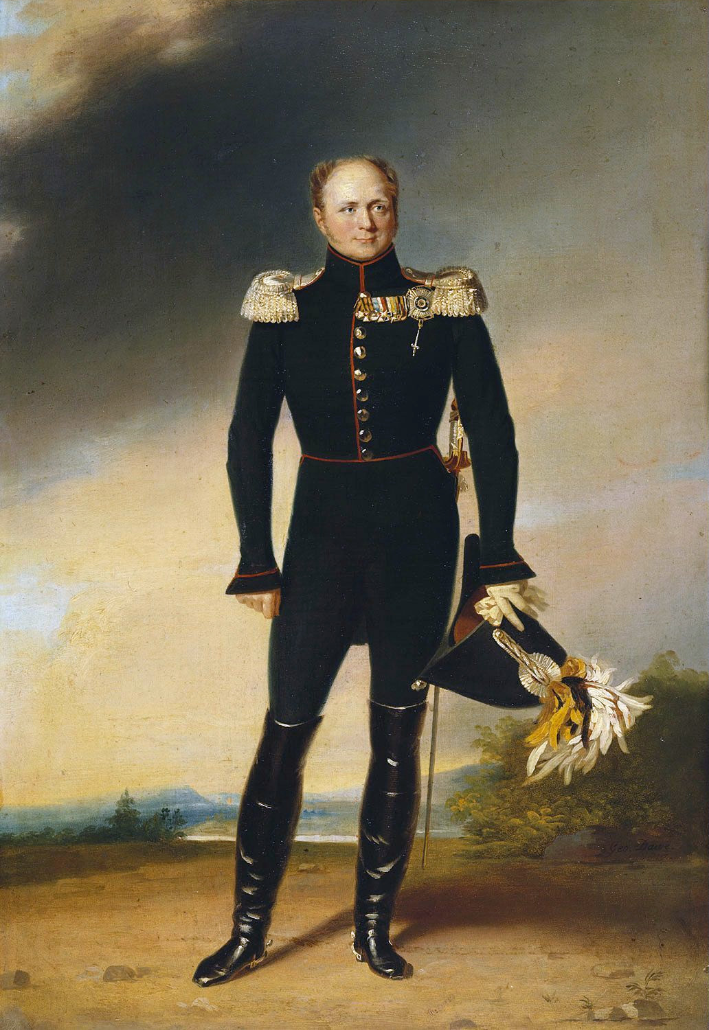 Alexander I is wearing the dark green uniform of Russian Field Marshal, decorated with various orders, most prominently the star of the Order of St Andrew surrounded by the Garter with the pendant sword of the Swedish Order of the Sword.